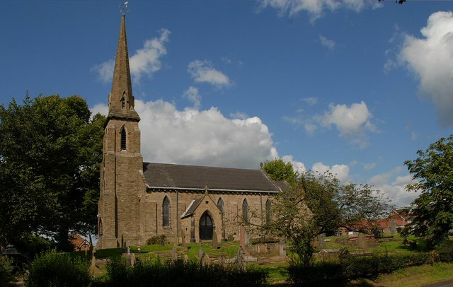 St Thomas's parish church, Henbury, Cheshire, seen from the southwest